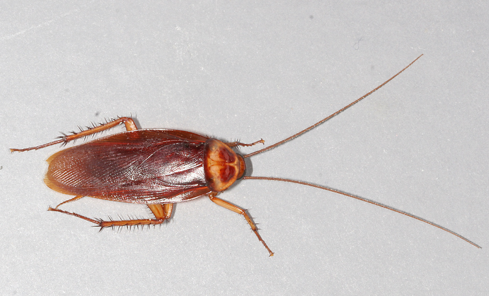 The american cockroach, Periplaneta americana. Photo by Gary Alpert.